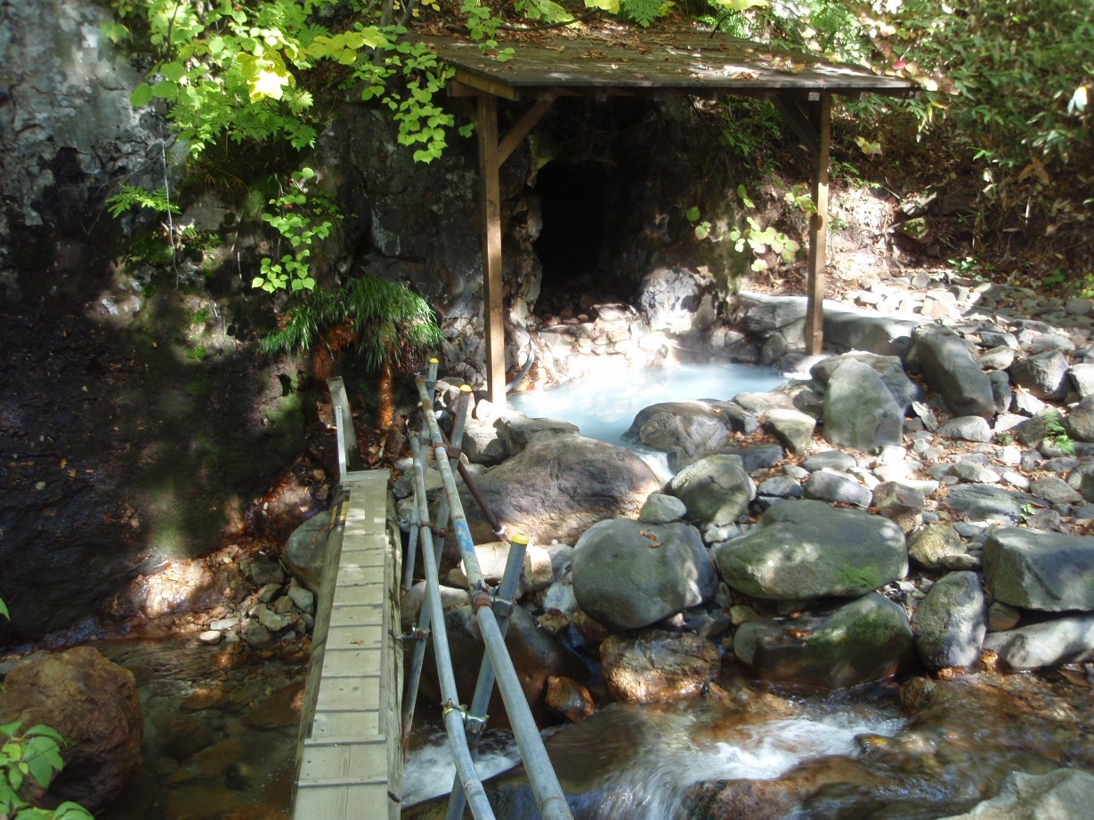 Asahi spa in iwanai, Hokkaido Japan.